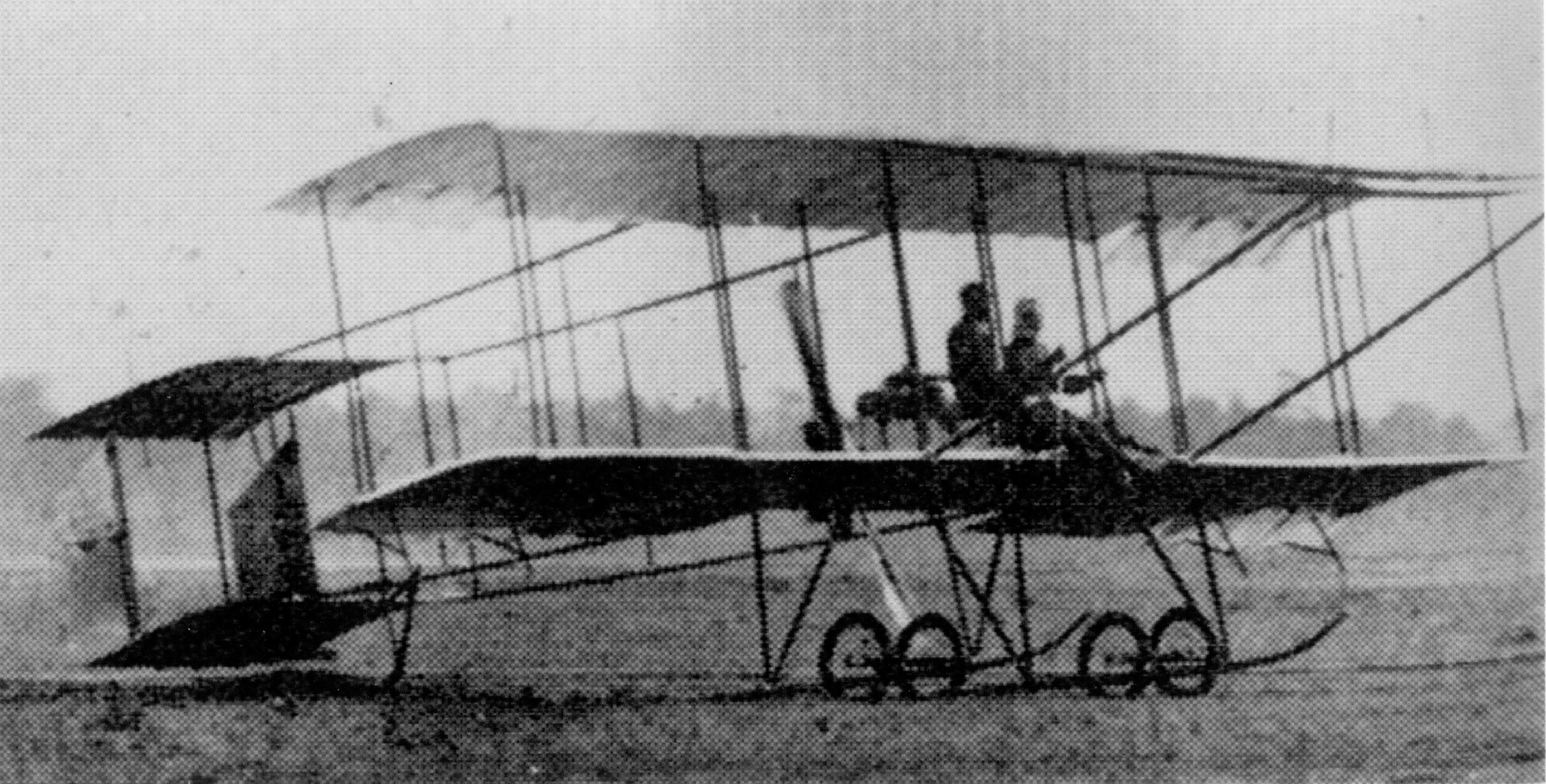 The Henry Farman Biplane（The first flight of the Japanese history）